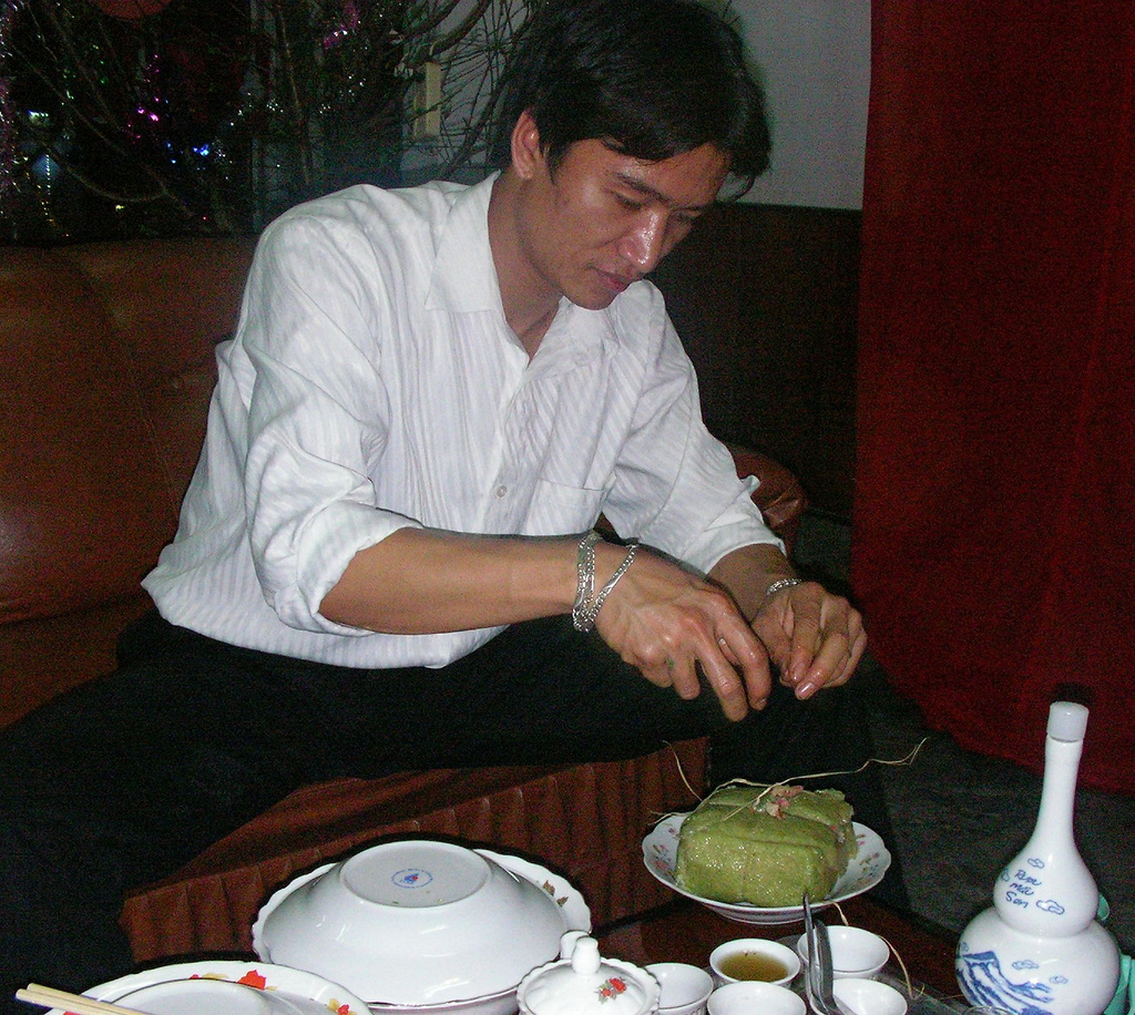 Lang Son, Vietnam